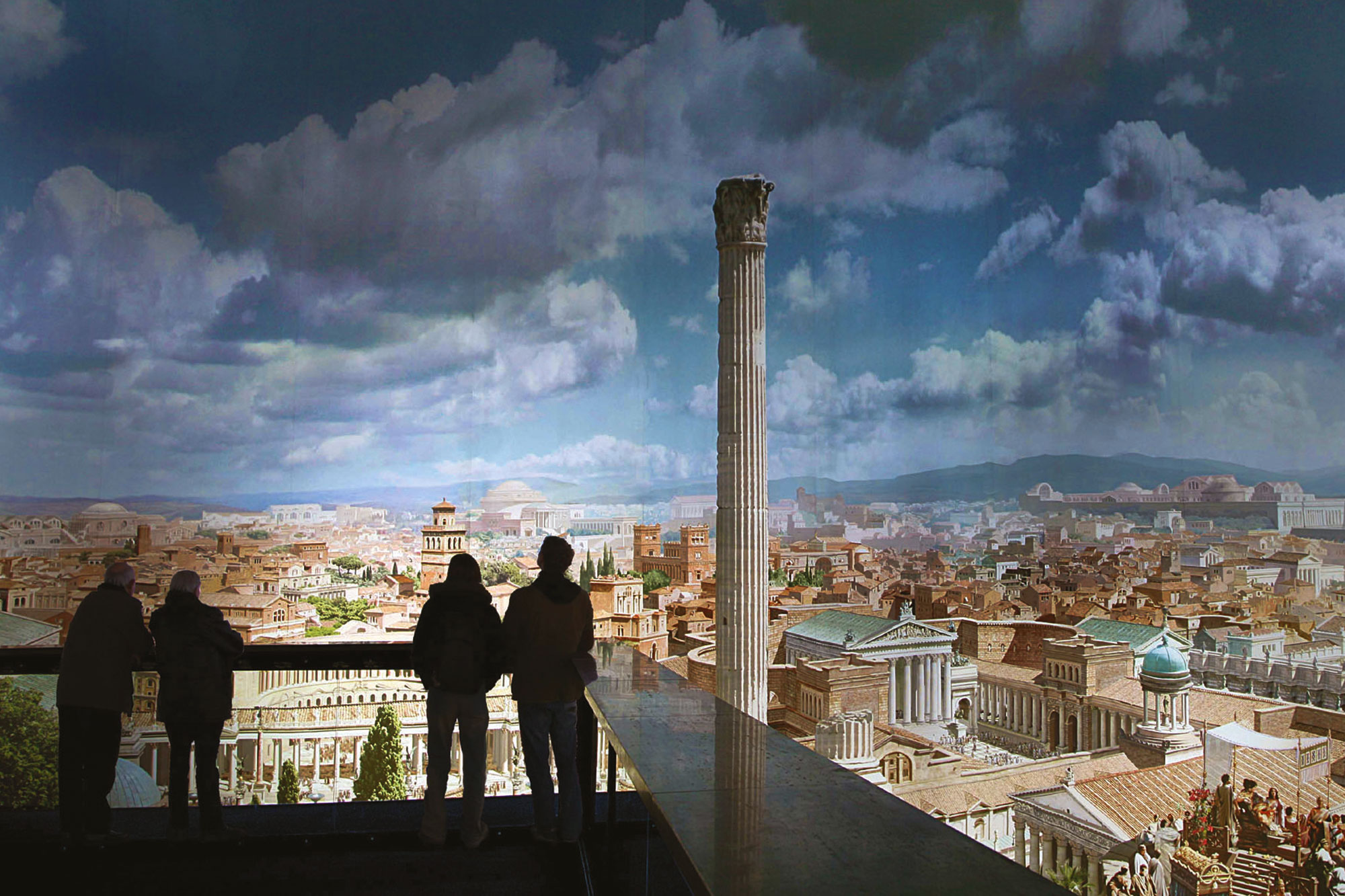 The Panorama ROME 312 with the visitors‘ platform in the centre (c) asisi